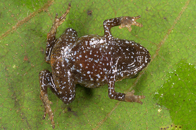 Bryophryne gymnotis